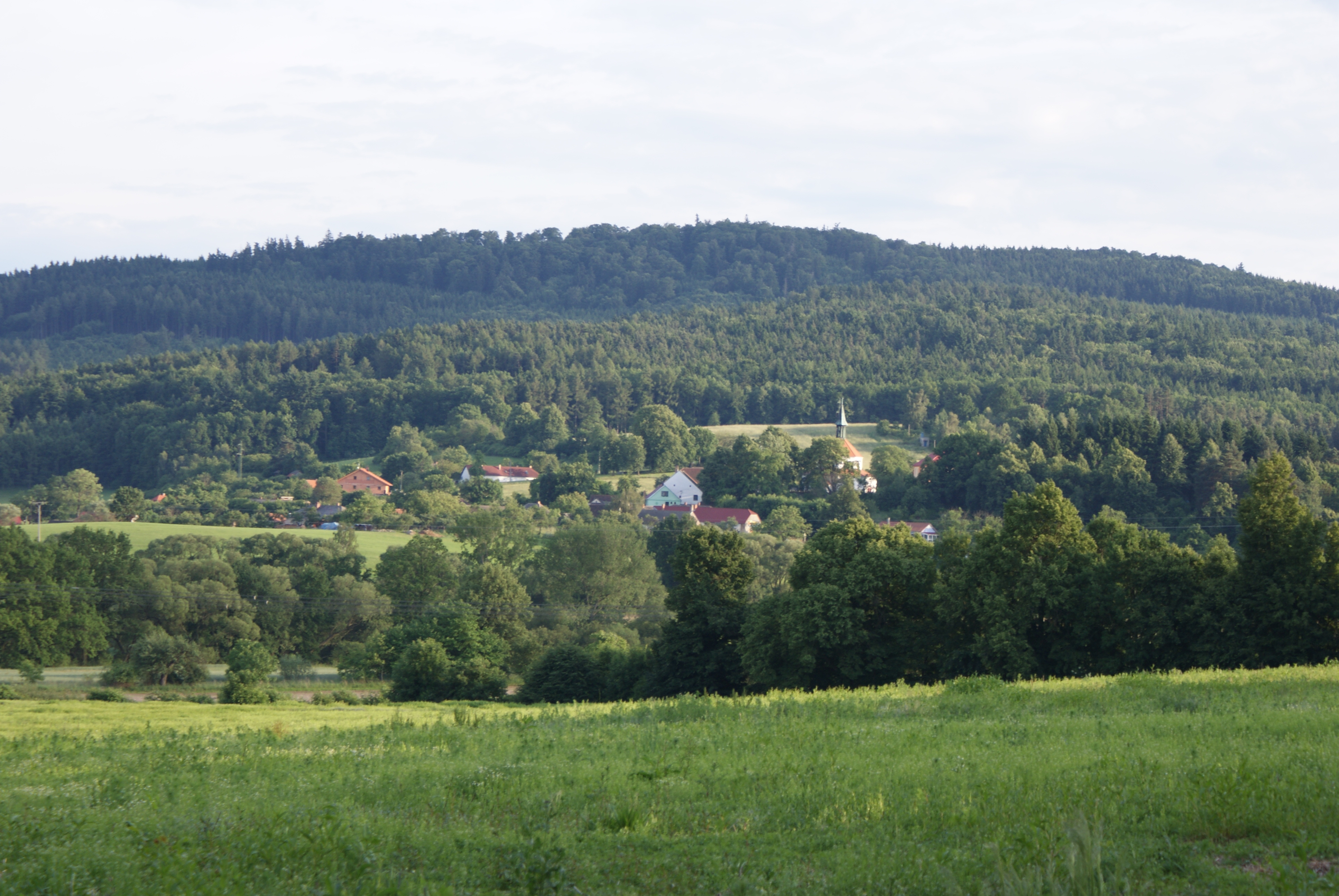 Skočice, village in Strakonice district, Czech Republic, general view Česky: Skočice, okres Strakonice, celkový pohled